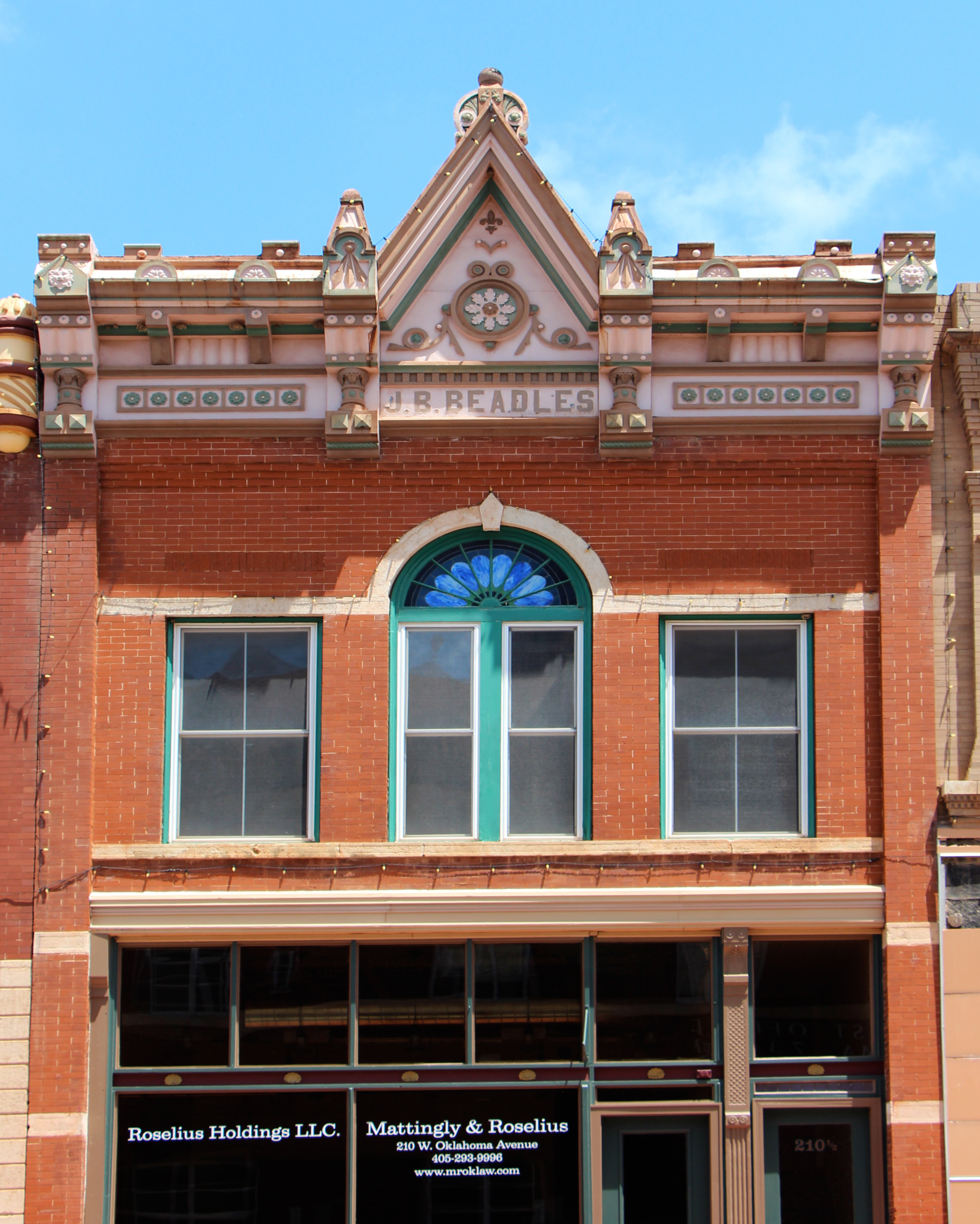 J.B. Beadles Building, Guthrie, Oklahoma